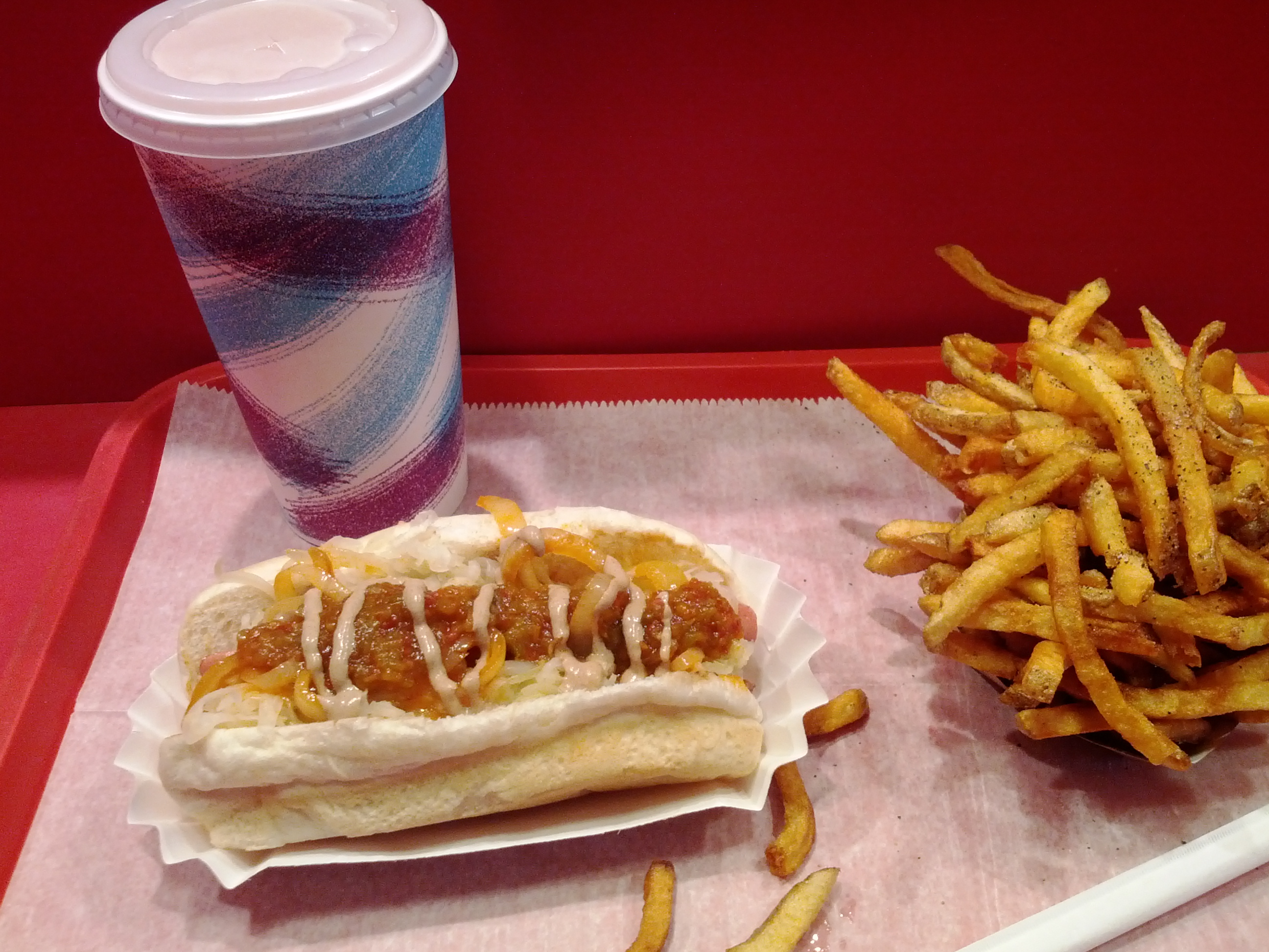 Hot Dog, Fries, and Shake from Super Duper Weenie